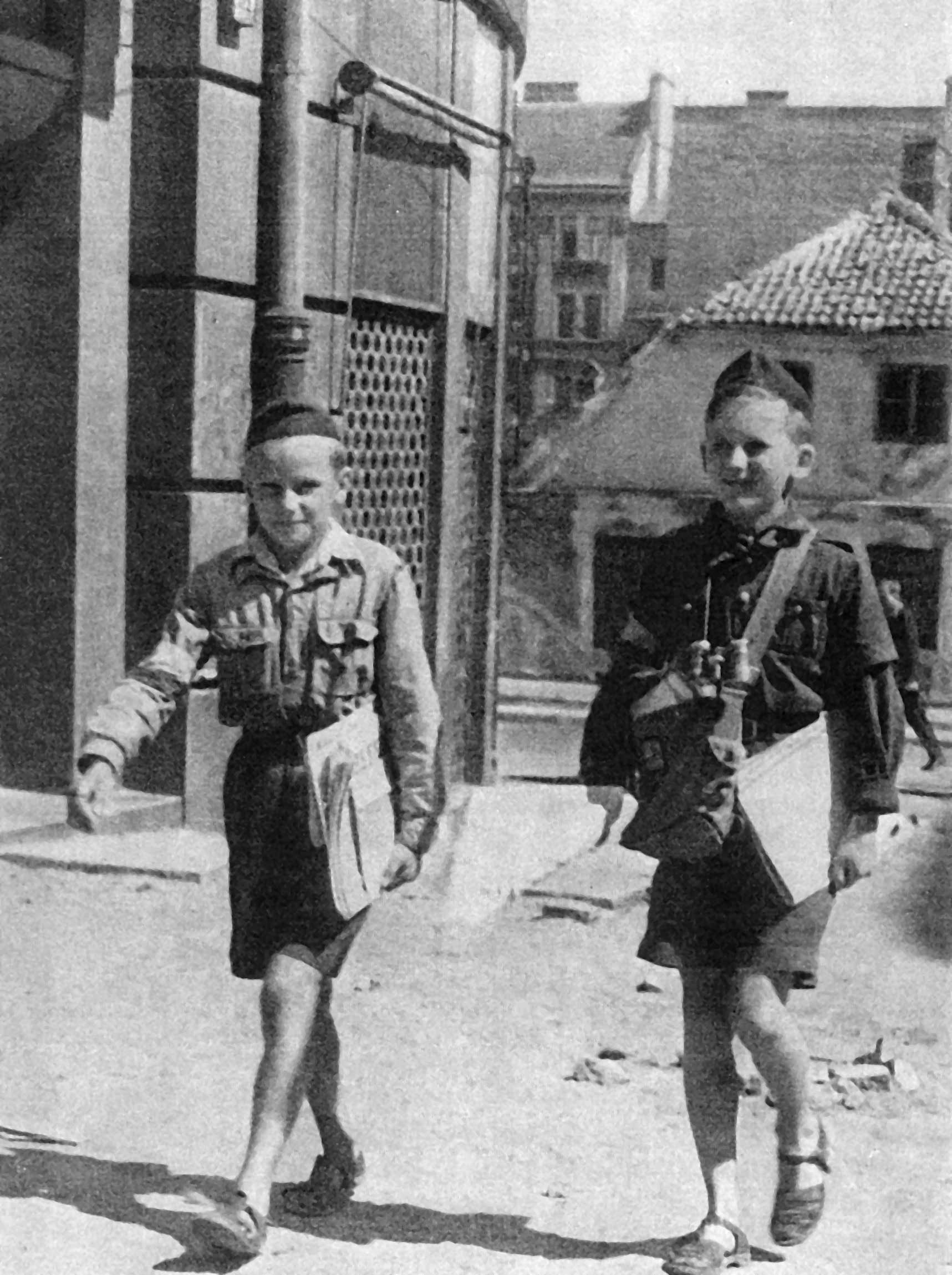 Warsaw Uprising: Brothers Jeleniewicz "Żbik" and "Ryś" from Scout Postal Service distributing insurgent press at Tamka Street in August 1944.